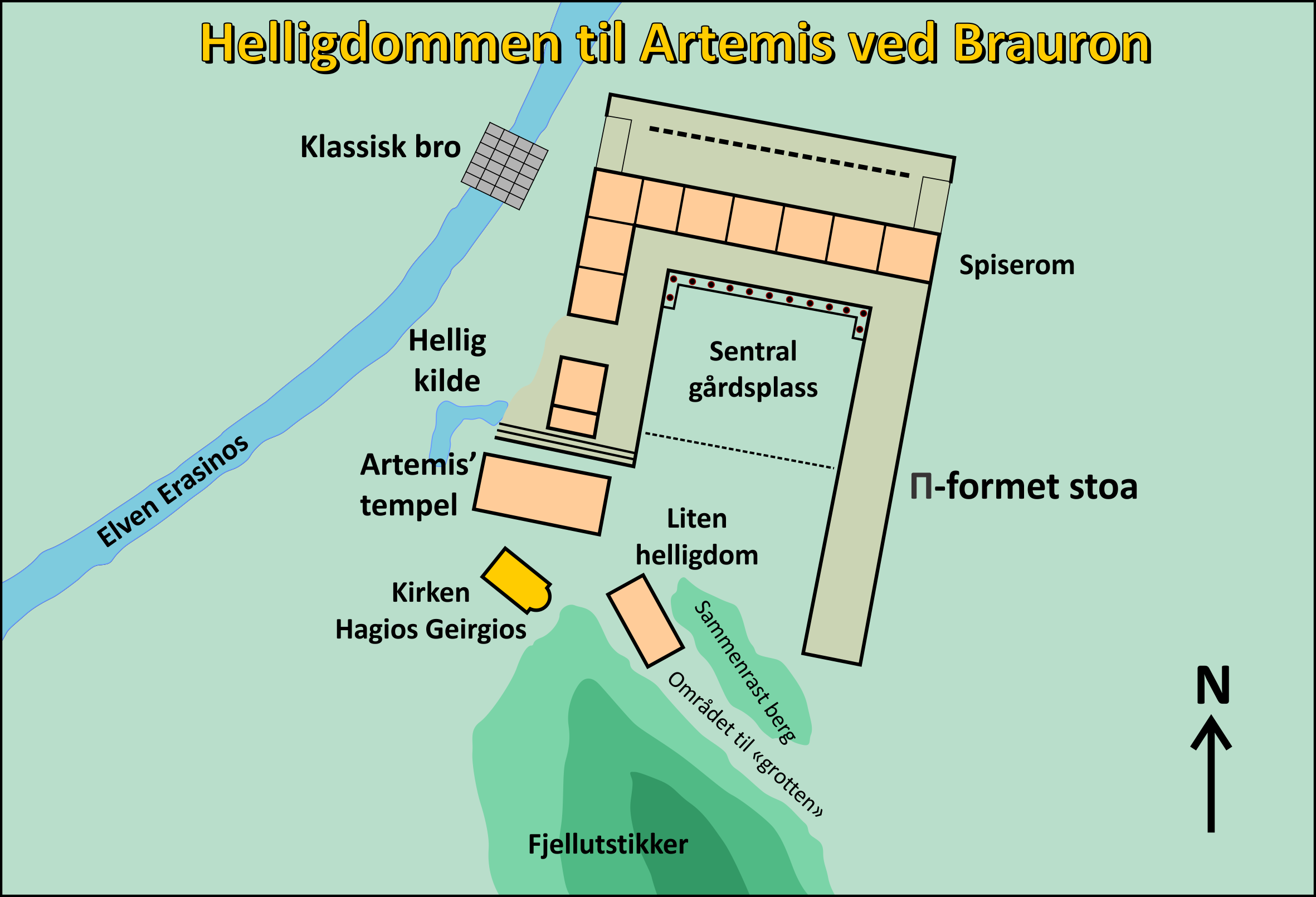 Labelled plan of the Sanctuary of Artemis, text in Norwegian, based upon previous work of J.M. Harrington, self-made image